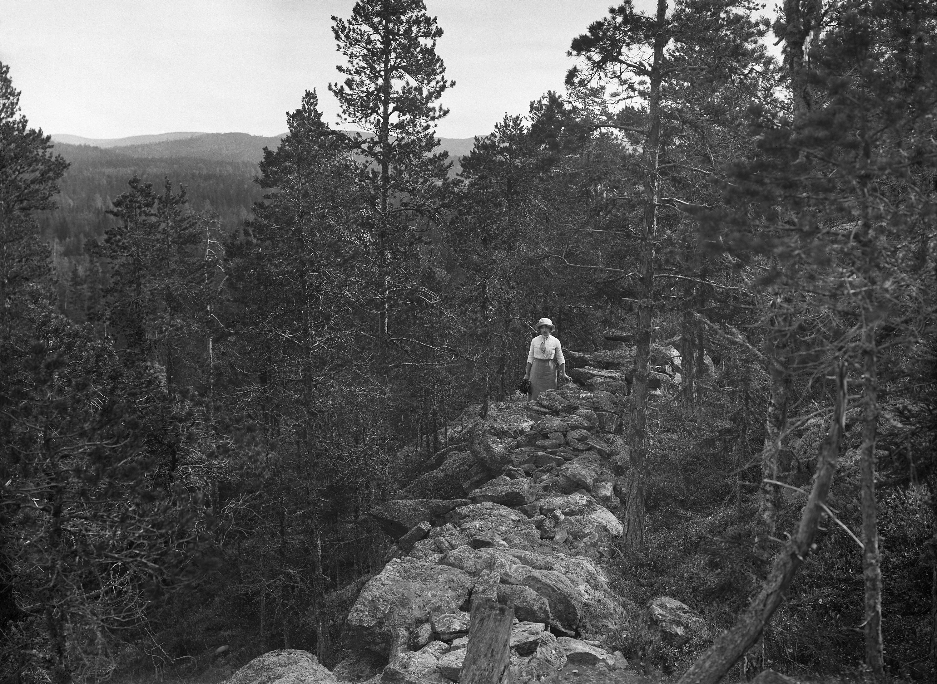 at the prehistoric fortification Borgberget in Segersta. Parish (socken): Segersta Province (landskap): Hälsingland Municipality (kommun): Bollnäs County (län): Gävleborg Photograph by: Gustaf Hallström Date: 1912 Format: Glass plate negative Persistent URL: Read more about the photo database (in english)